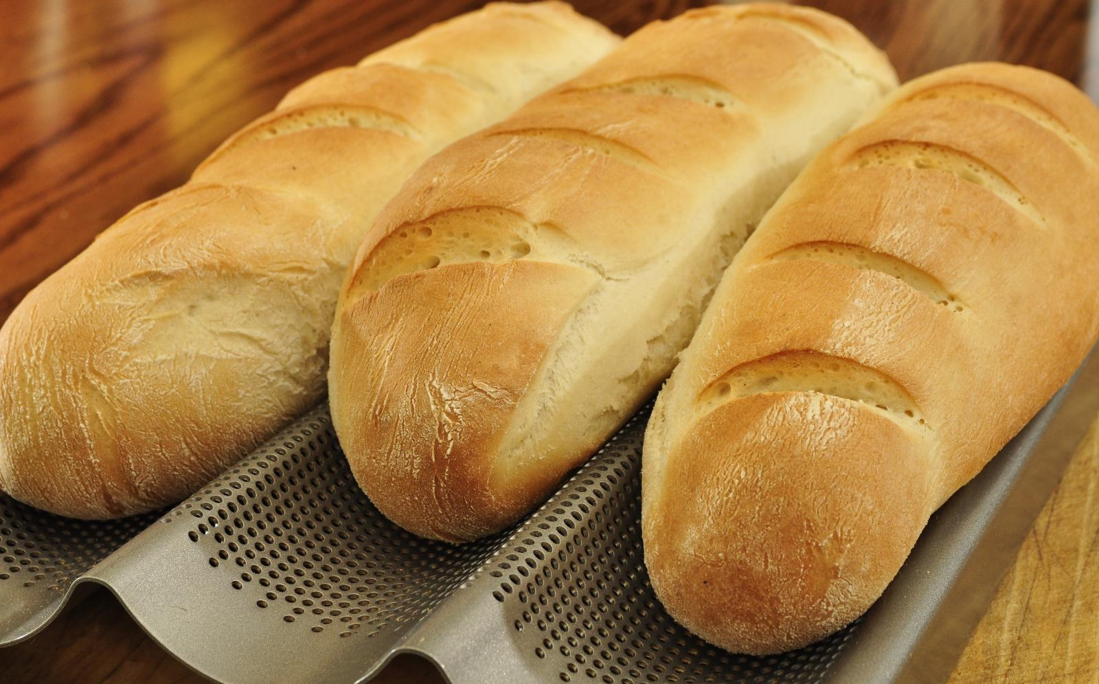 Mmm... French bread